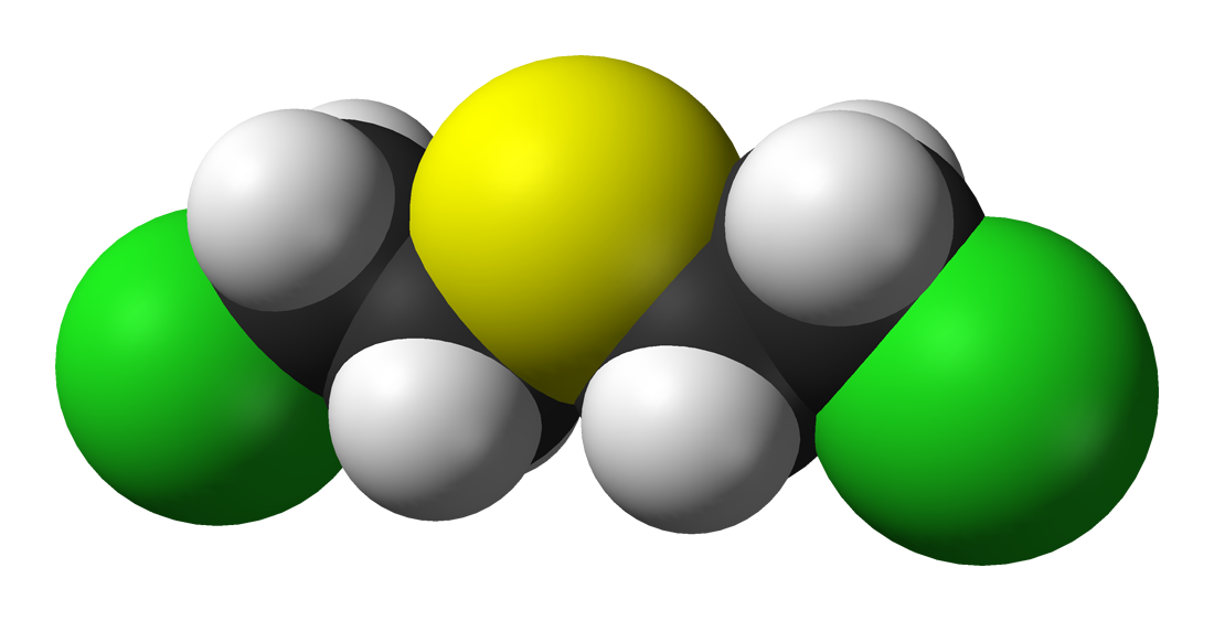 Space-filling model of the sulfur mustard molecule